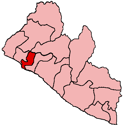 Map of Liberia showing Montserrado County; created with the GIMP. Made by User:Acntx.